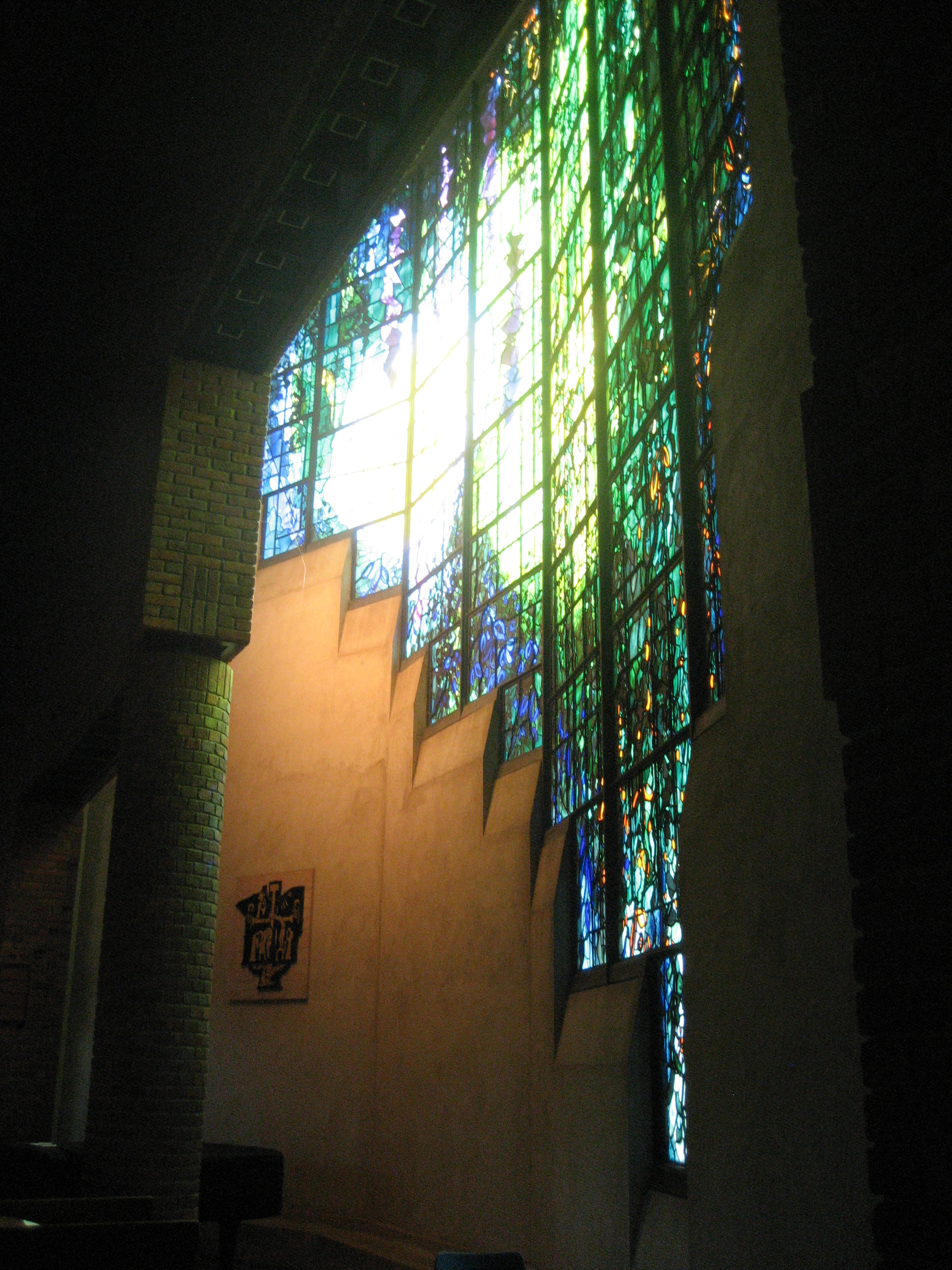 Stained-glass window in Robinson College Chapel, Cambridge, England (UK). Design by John Piper